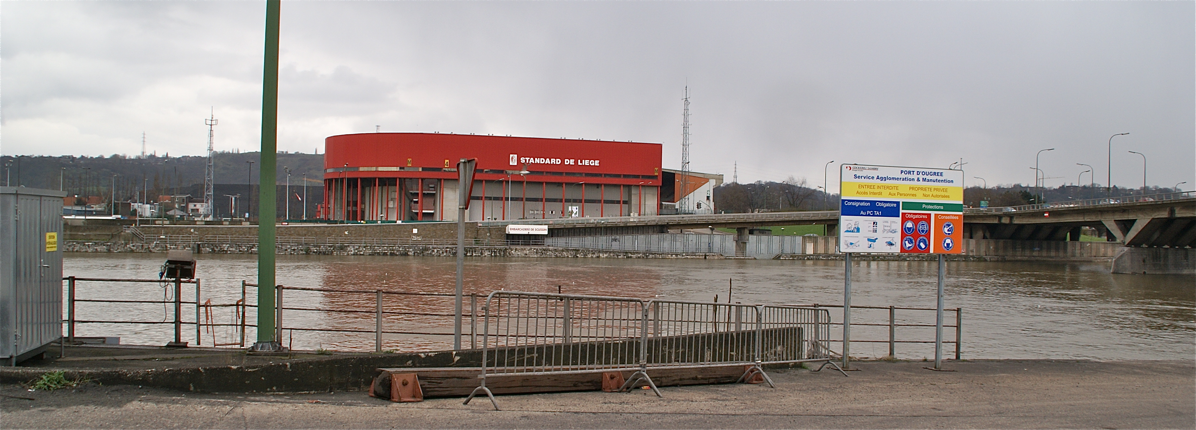 Seraing (Ougrée), Belgium: The Football stadium of Standard Liège as seen from the Port of Ougrée